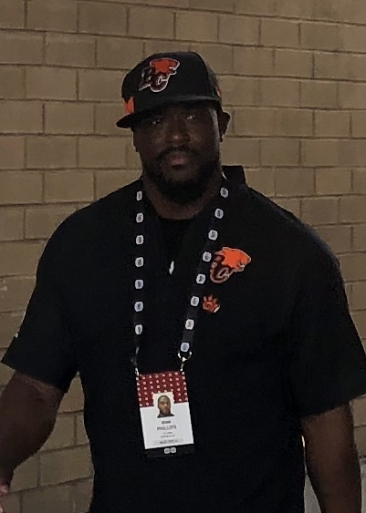 Ryan Phillips, coach for the BC Lions.